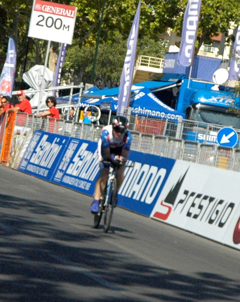 2013 UCI Road World Championships, Kelly CATLIN